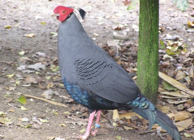 Picture of Siamese Fireback pheasant in a farm